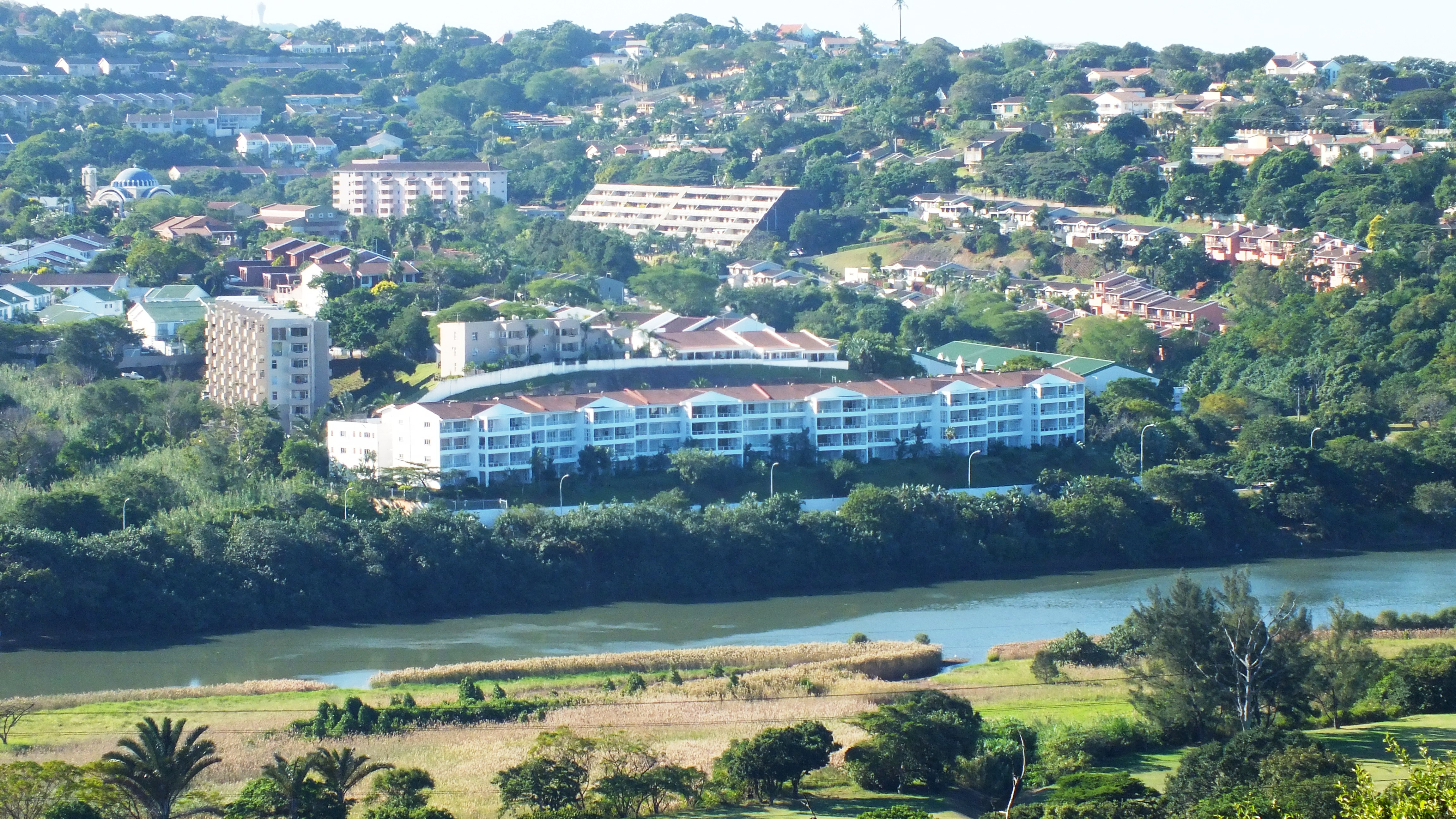 Umgeni Park on the Blue Lagoon in Durban North, South Africa, as seen from a viewing platform in Burman Bush Nature Reserve